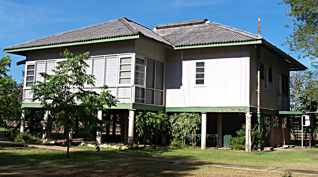 Photograph by Bill Bradley. billbeee 08:24, 6 May 2007 (UTC) Feel free to use it, just credit me as the photographer. You can contact me through my website my website